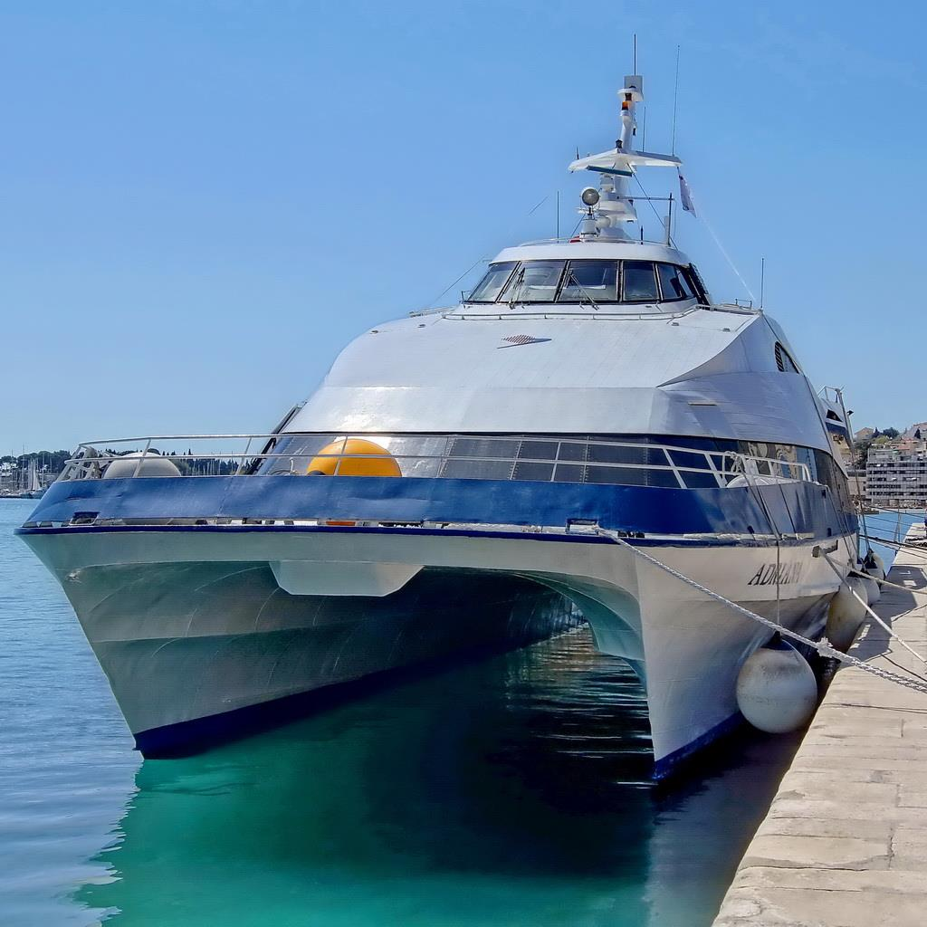 Adriana docked in the port of SplitTime-space: Apr 28, 2012; CET 14:33:56; N 43°30'23", E 16°26'21".